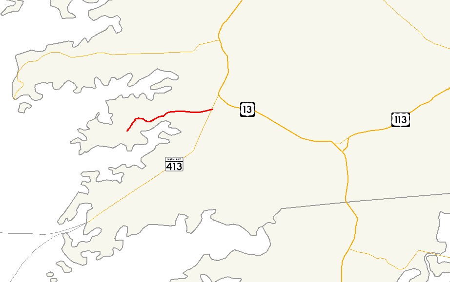 Map of Maryland 361